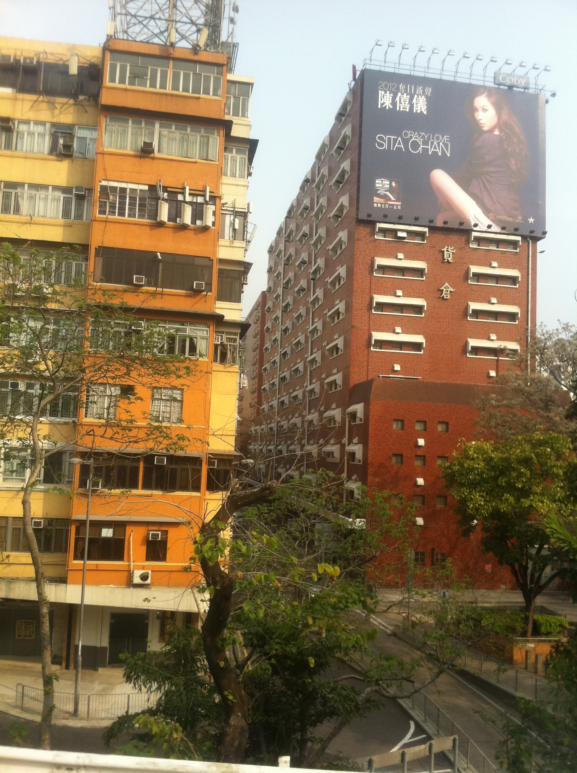 陳僖儀, 漆咸道北, Chatham Road North, Hung Hom, Hong Kong